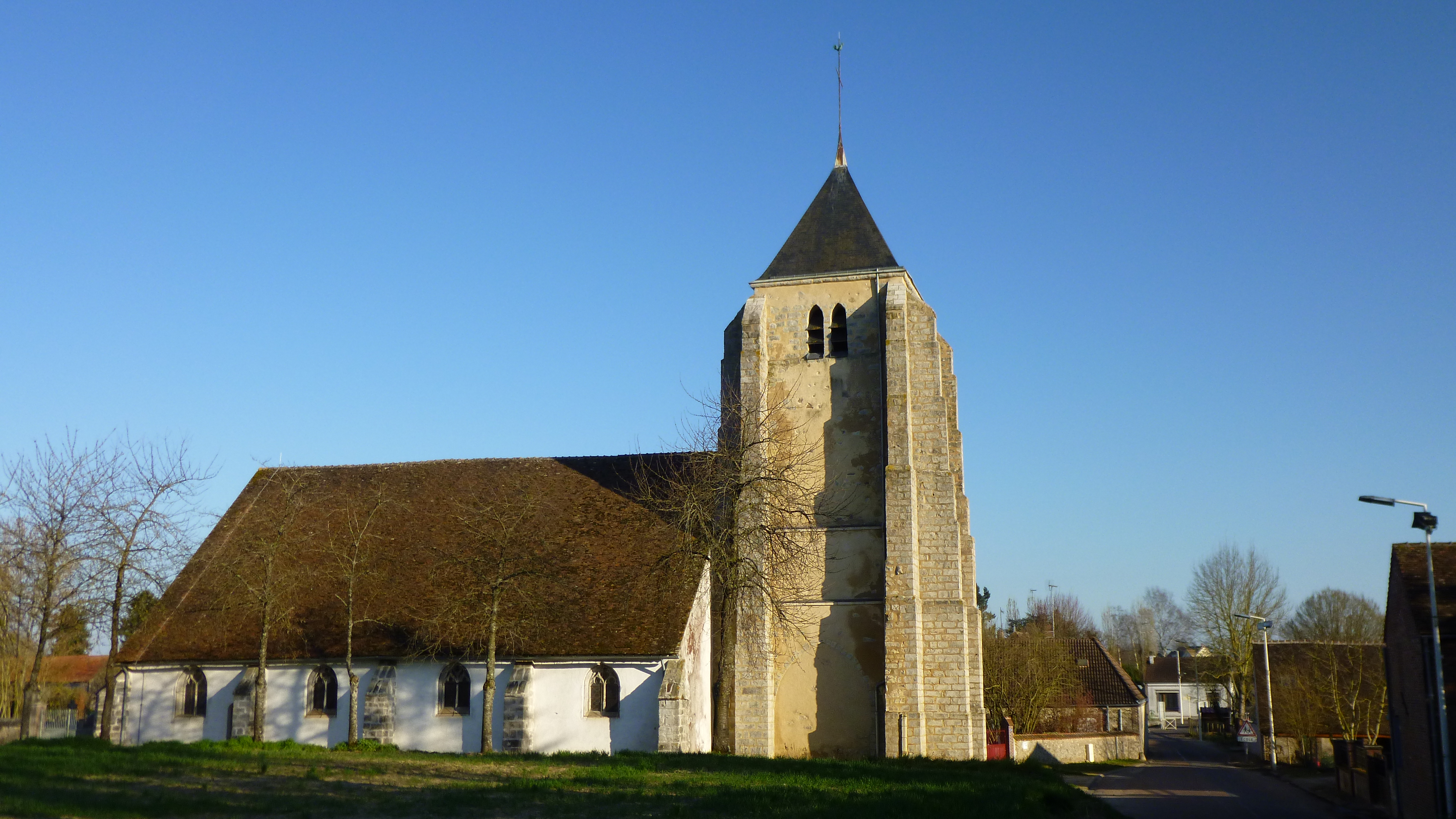 Saint-Loup-d'Ordon, Yonne, Burgundy, France. Saint-Loup church in Saint-Loup-d'Ordon. Coming from Courtenay on the D194. Church tower from the 12th century.